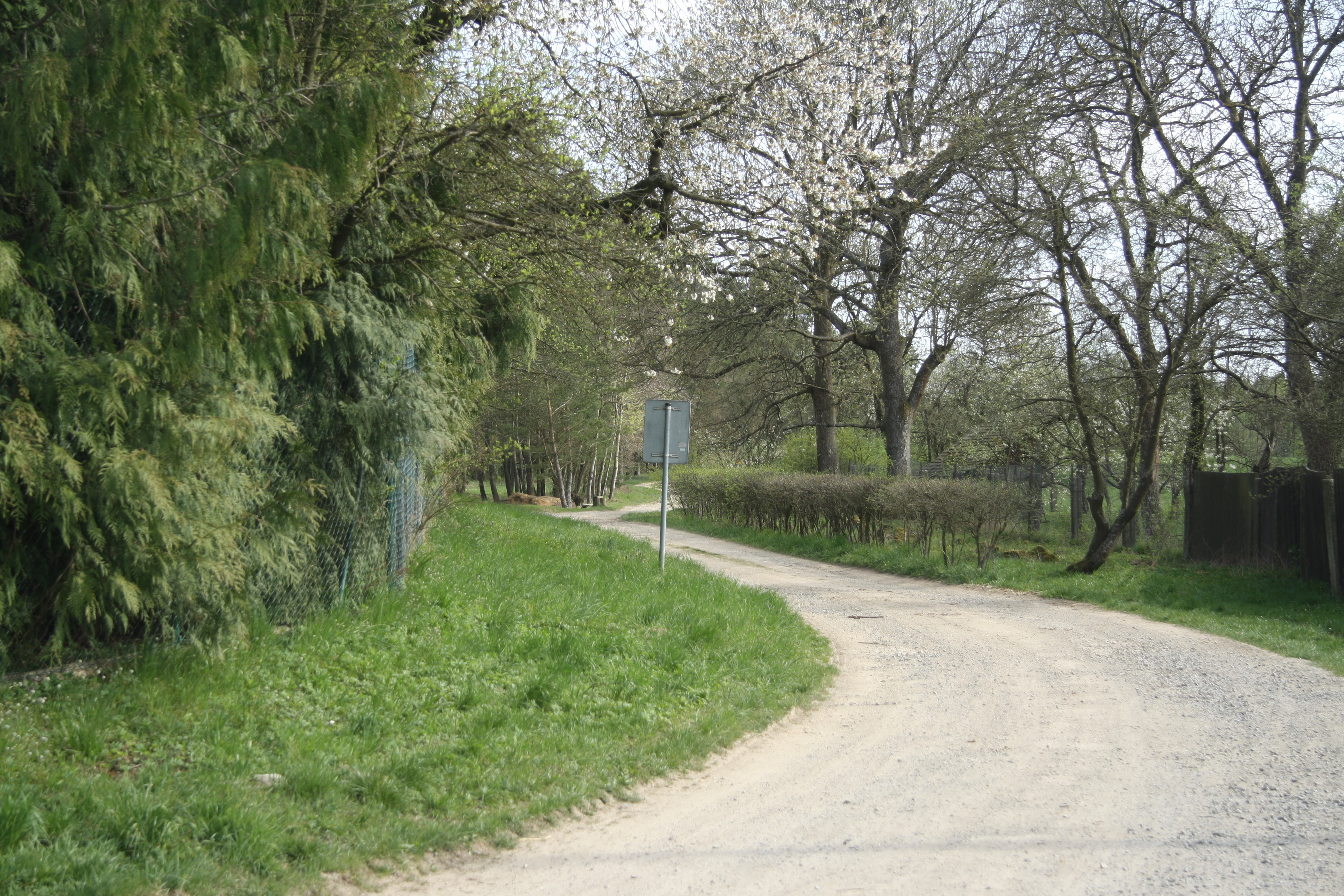 Bikeway 5103 in Horní Lažany, Lesonice, Třebíč District.